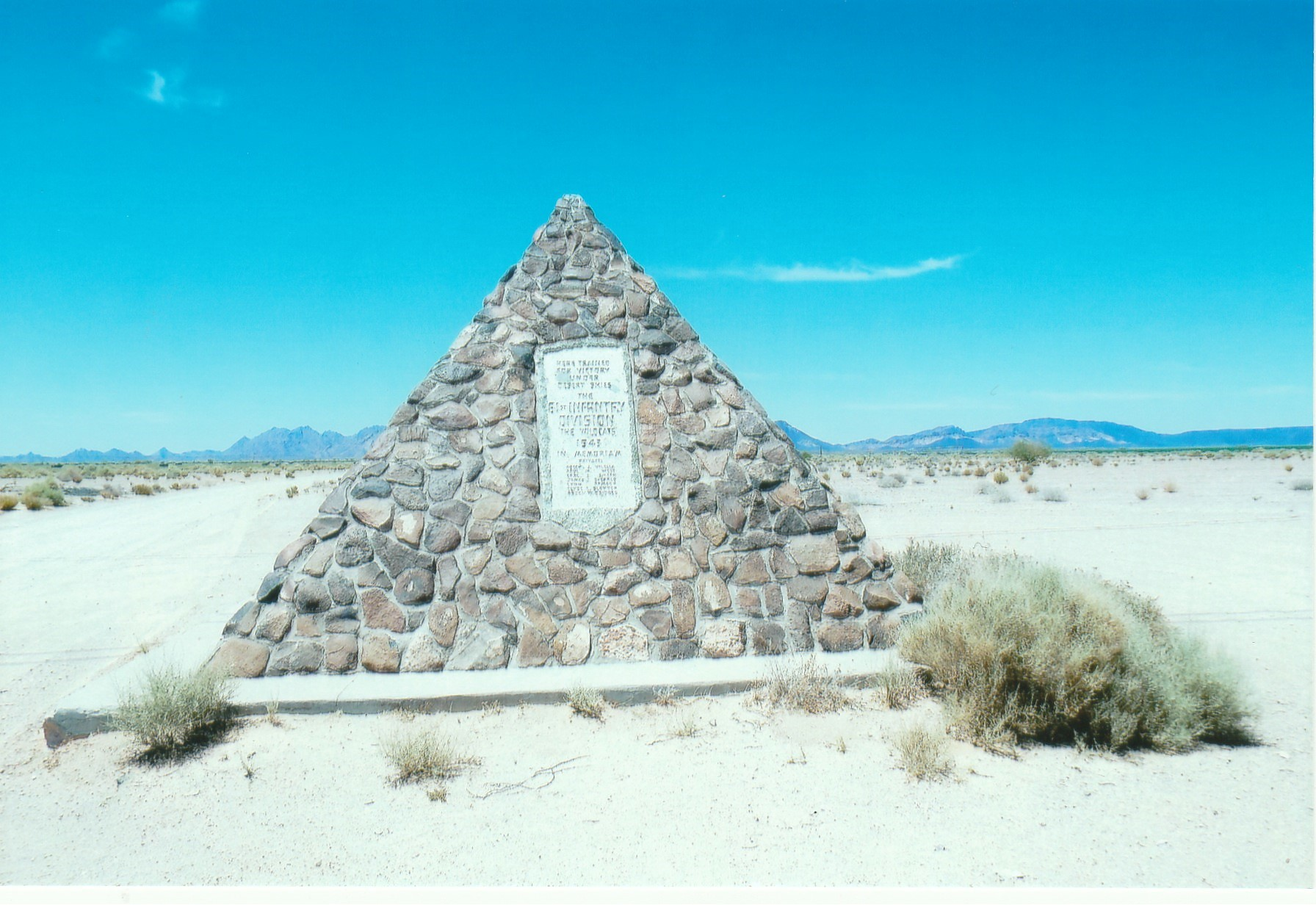 The Camp Horn Monument was added to the National Register of Historic Places in 2003, reference #03000900.